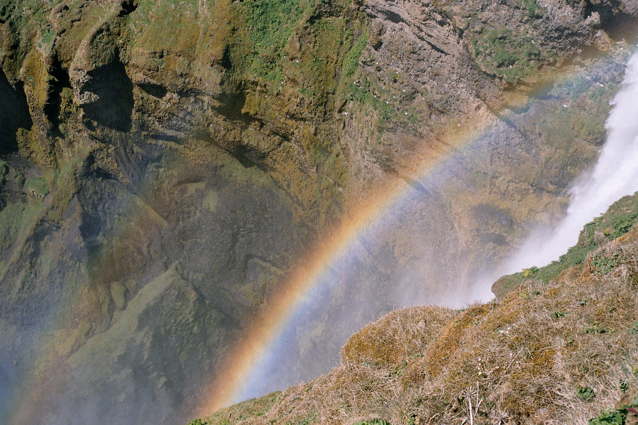 Rainbow in water vapour, waterfall in Iceland. Taken by me with a Canon SLR (AV-1).